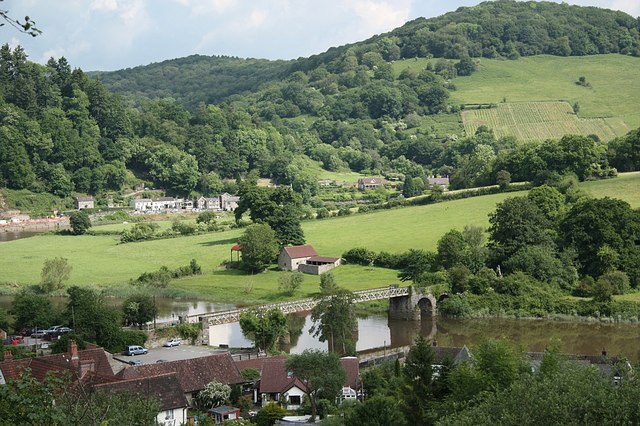 Into the valley View to the old railway bridge over the Wye at Tintern